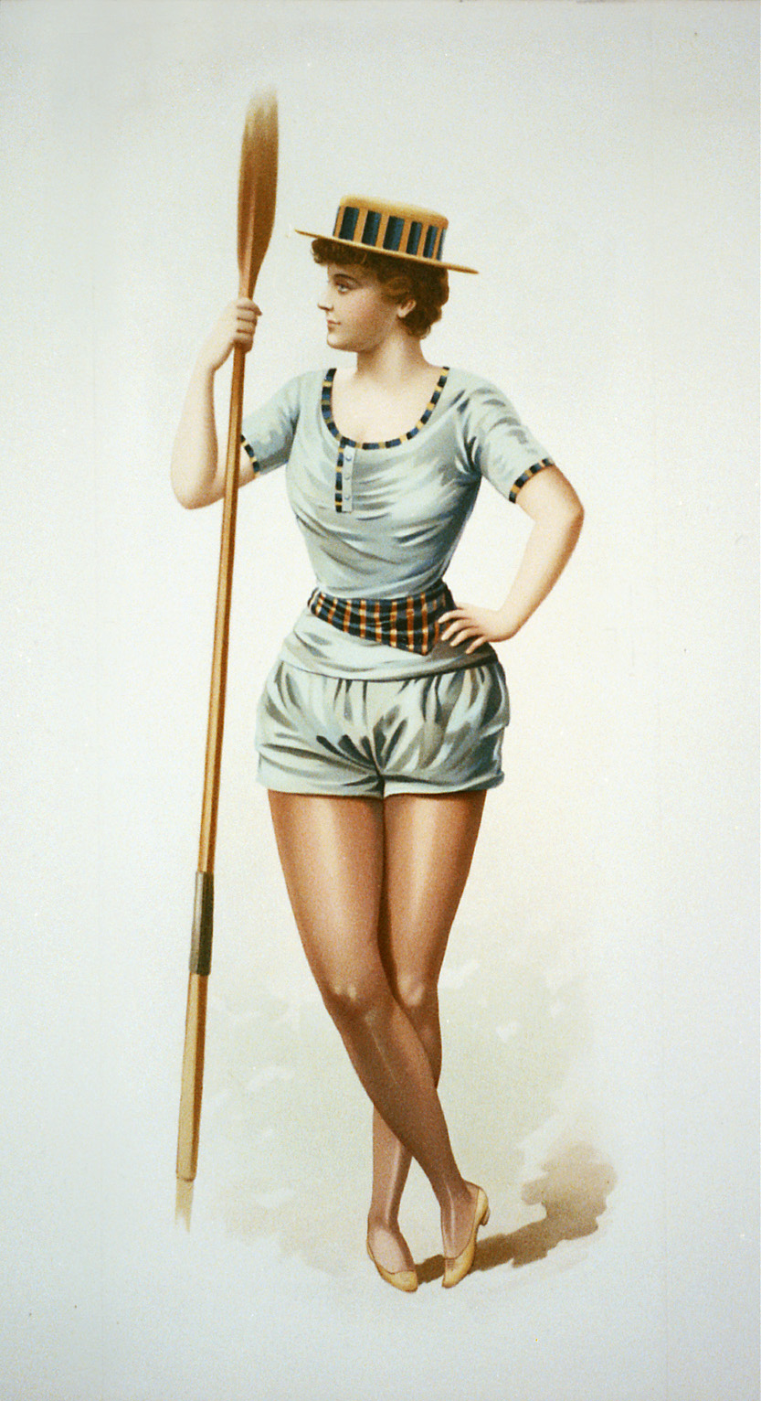 Rower. Lithograph depicting female rower holding an oar. Collecting card for D. Buchner & Co. chewing and smoking tobacco.